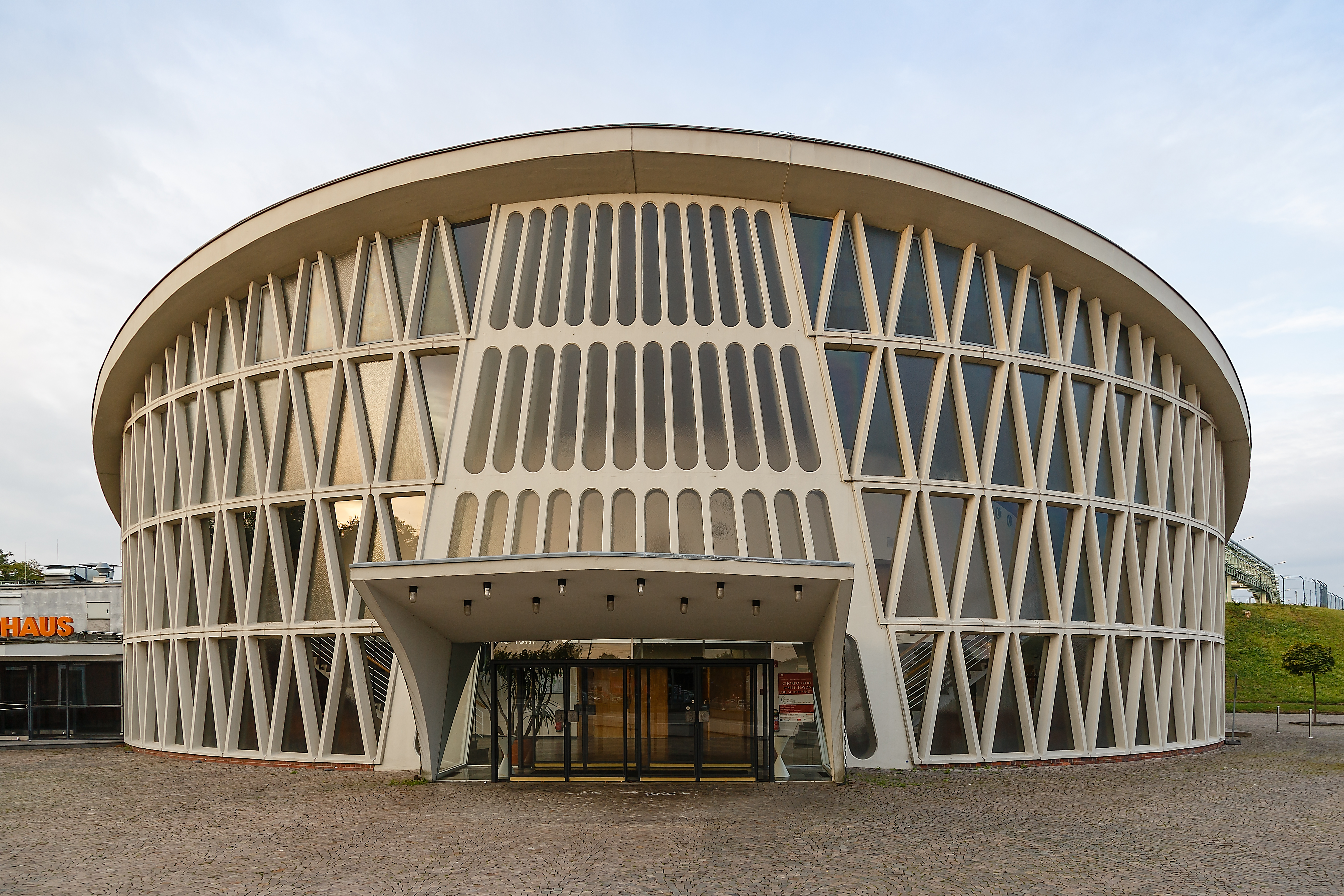 Hürth-Knapsack, Germany: Feierabendhaus